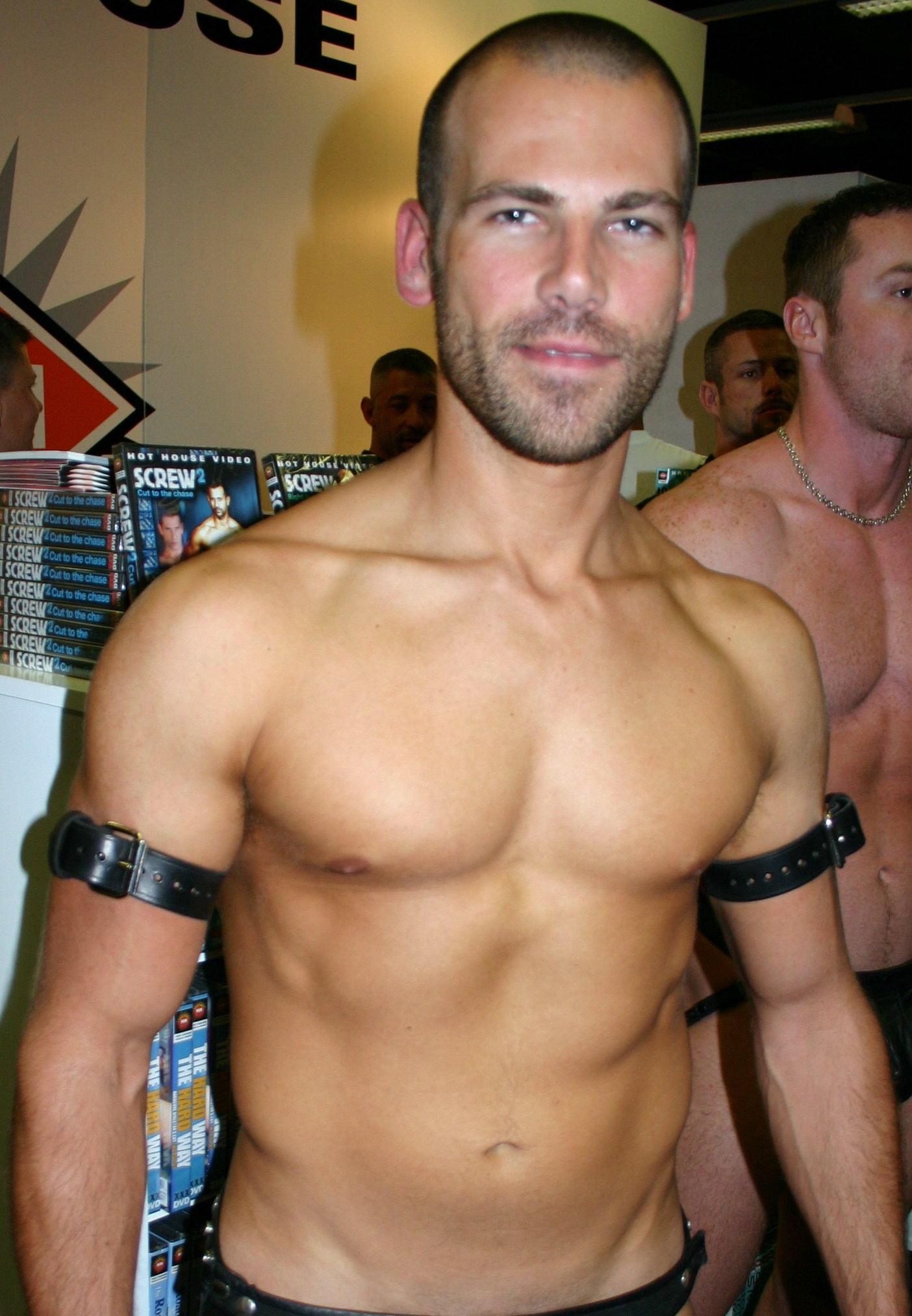 The 2005 IML Leather Market - Hot House star Jason Ridge